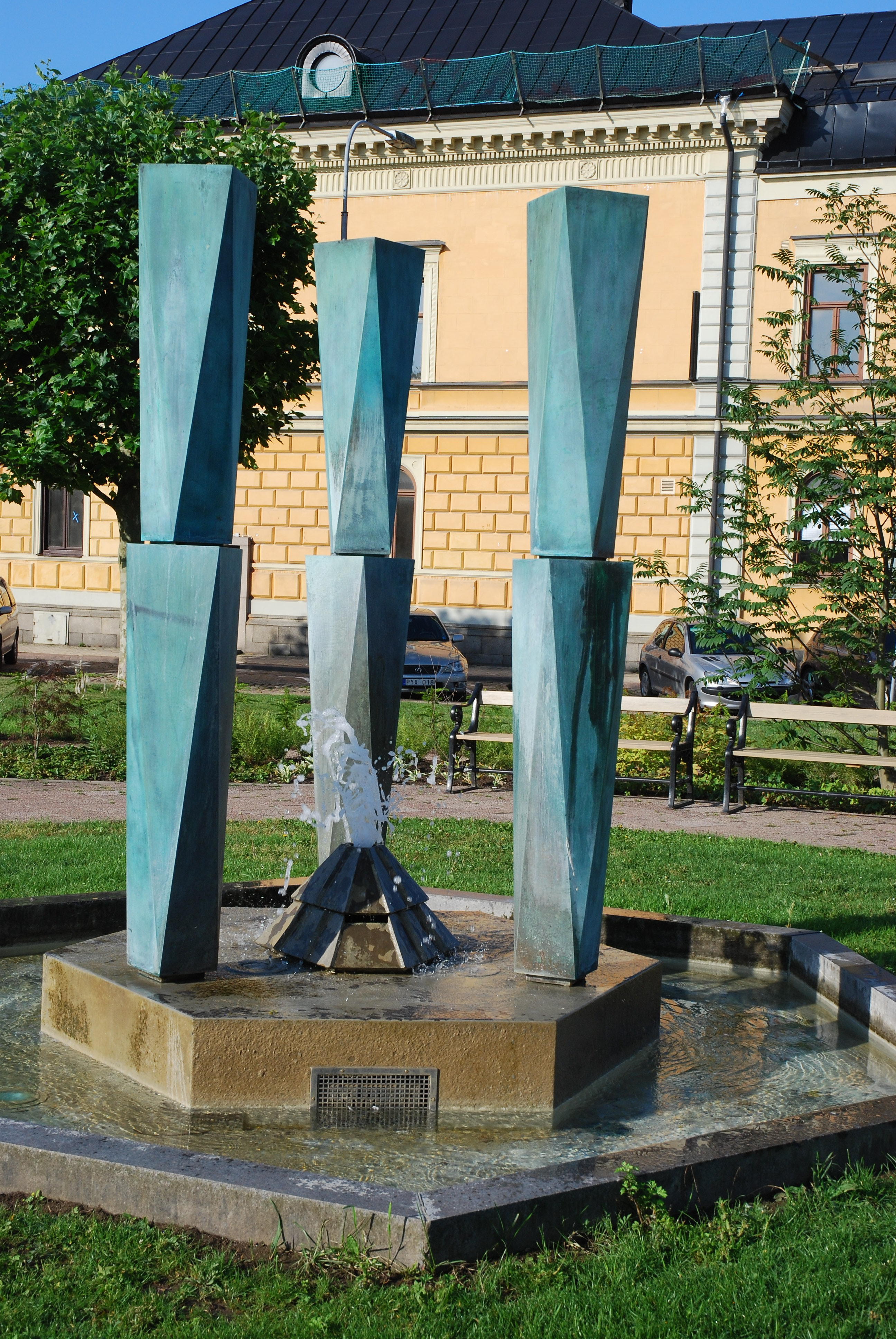 Carl Magnus' sculpture Källan (The Spring), bronze, 1996, Kristianstad, Sweden